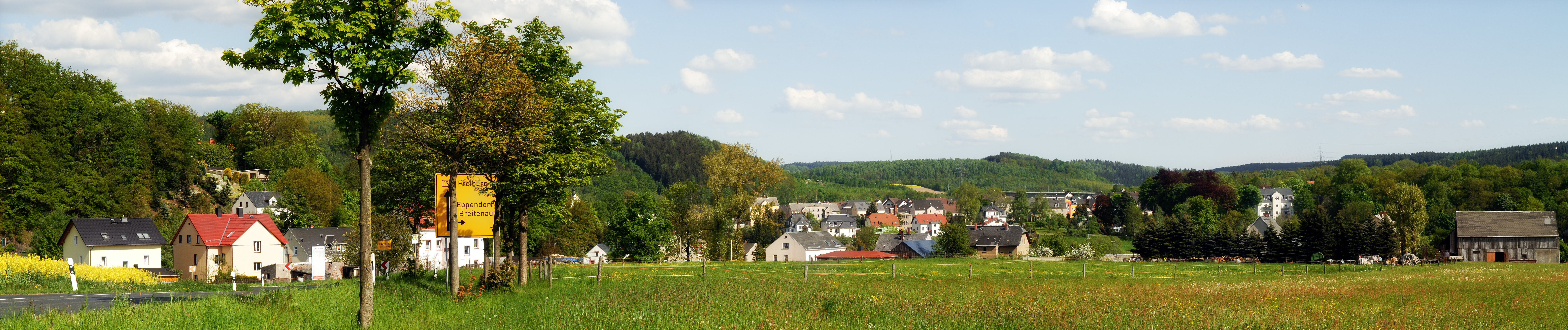 This image shows the town Falkenau, Germany seen from north-west. It is a three segment panoramic image.